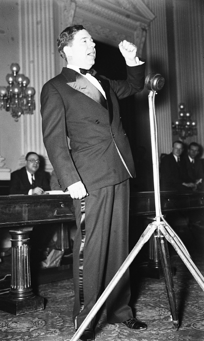 Huey Long speaking in February or March 1935